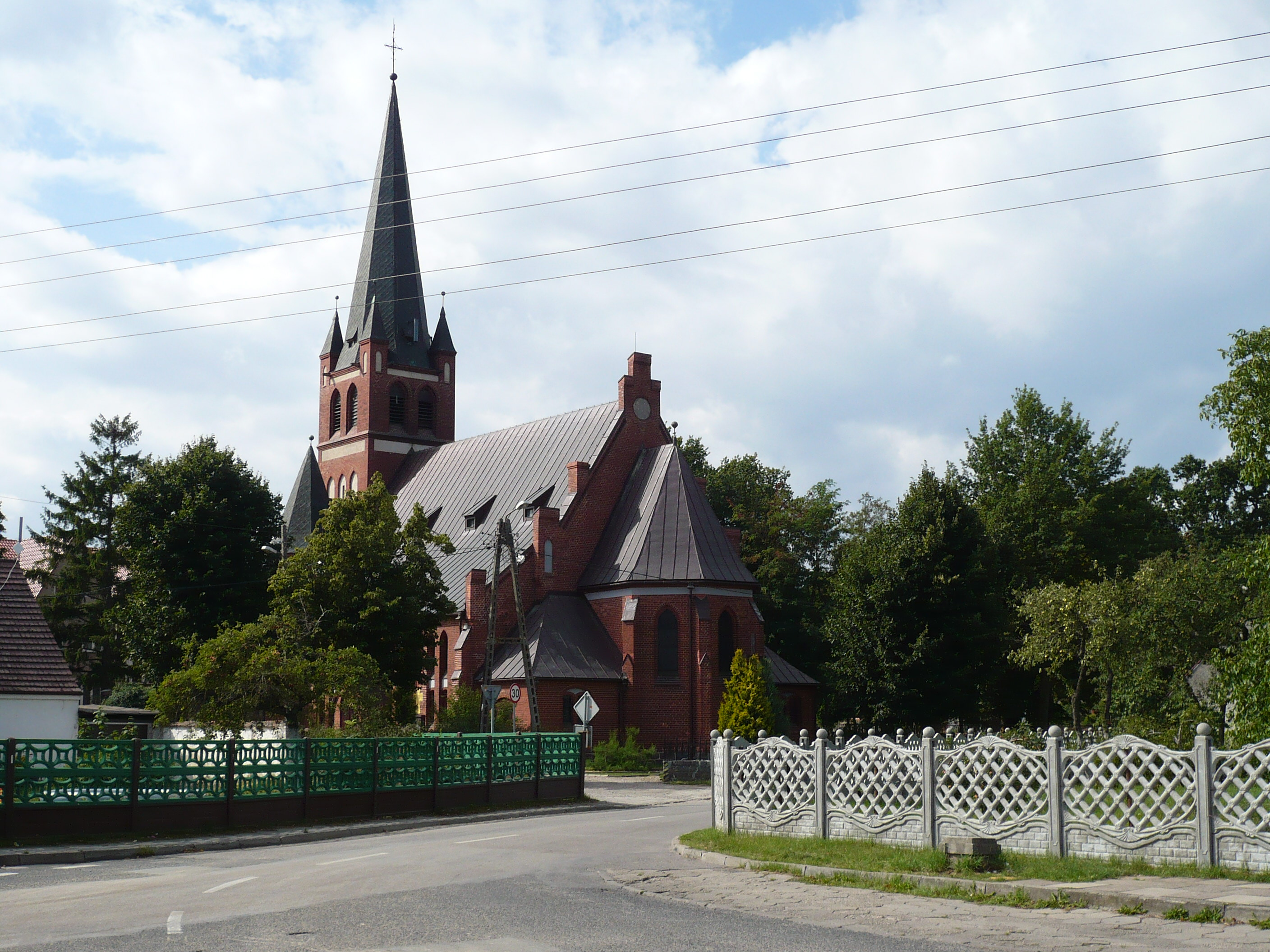 Church in Przytór (district of Świnoujście)